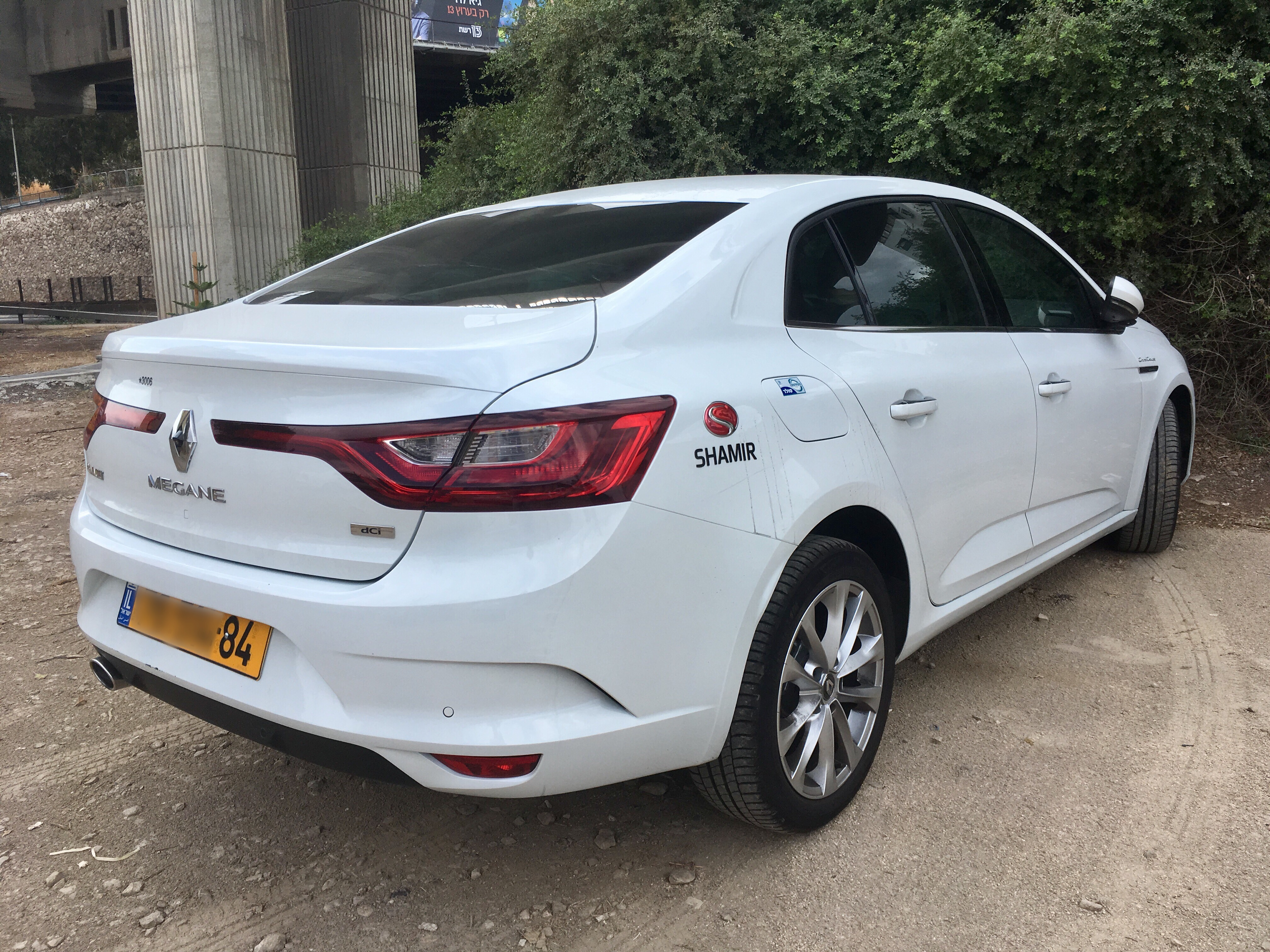 Megane Grand-Coupe